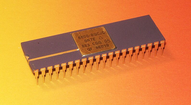 Motorola 6800BQCJC